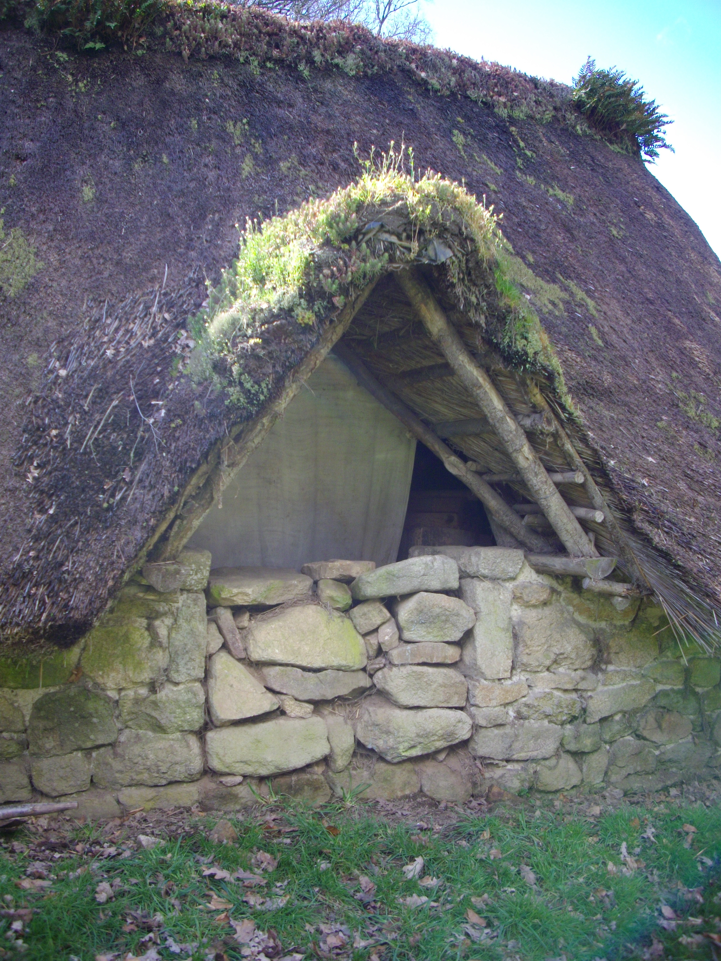 Village of the year 1000 of Melrand (Morbihan) : reconstituted village, dead people door of a house